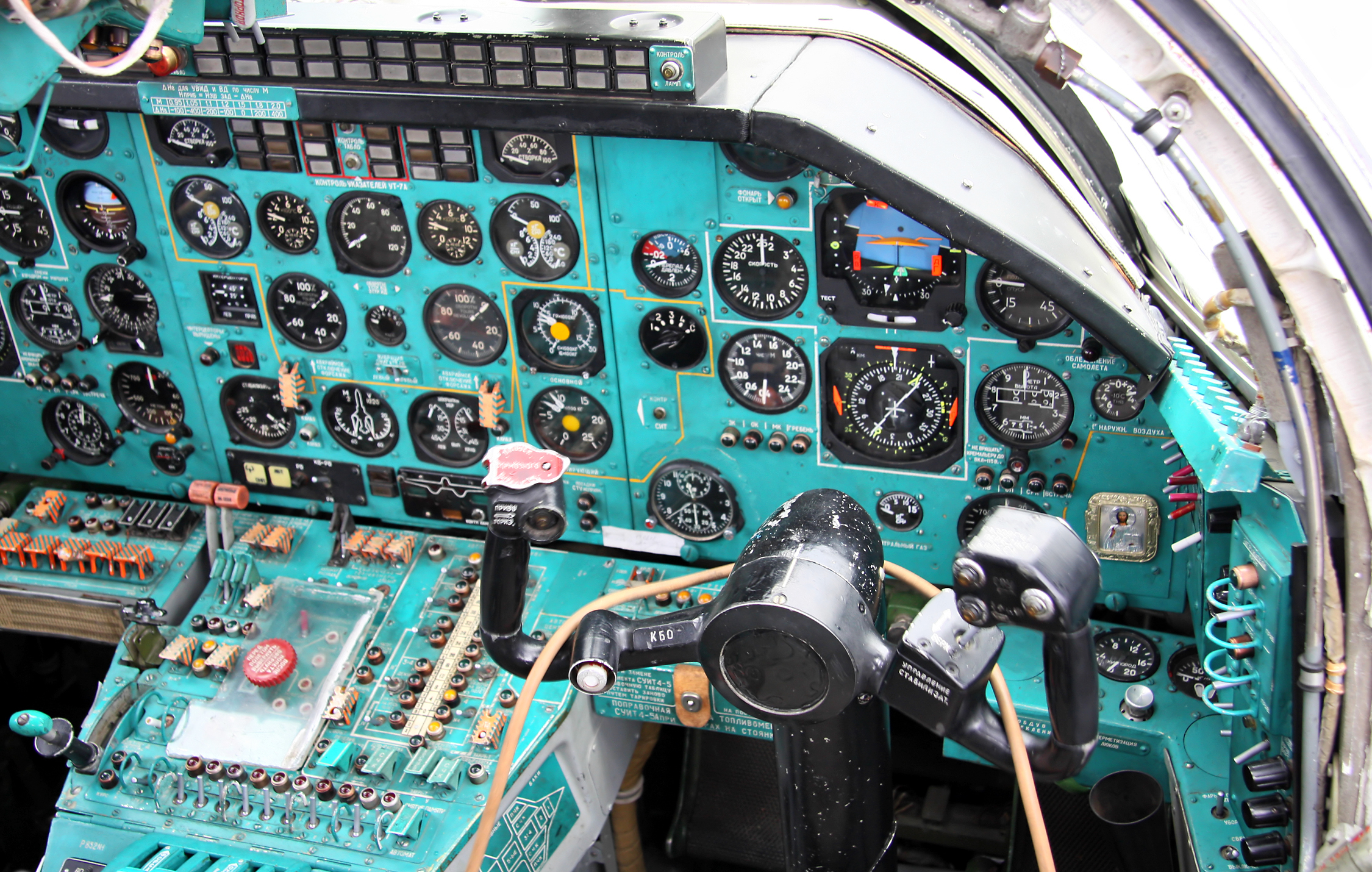 Cockpit of Tupolev Tu-22M3 bomber, second pilot panel